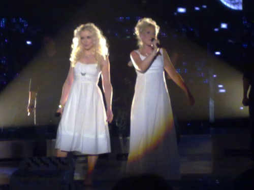 Finnish female folk duo Kuunkuiskaajat performing in the Finnish national selection, Euroviisut, in Tampere for the Finnish entry to the Eurovision Song Contest 2010.